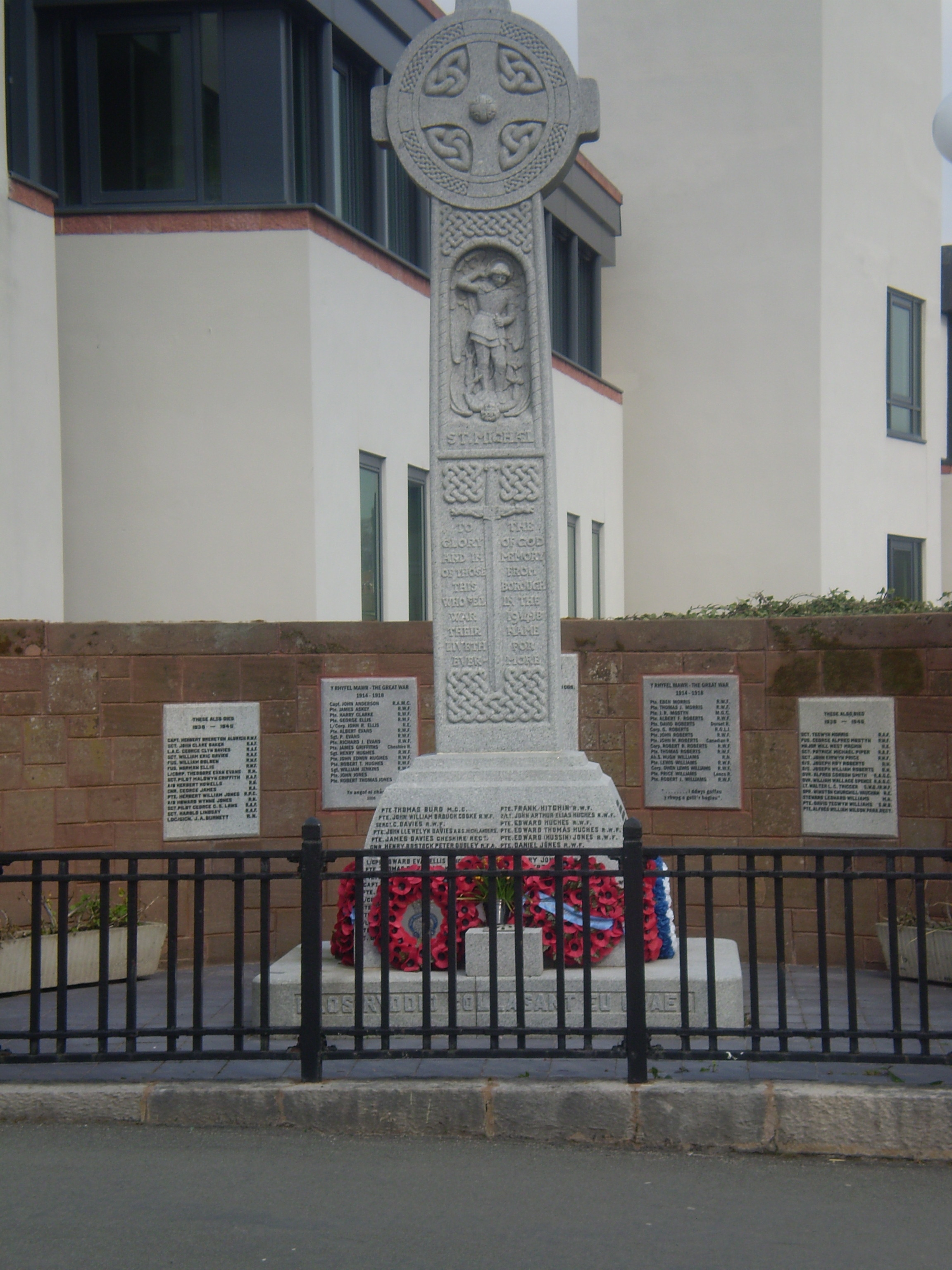 War Memorial at Ruthin, Wales. The names of the local First World War dead are listed around the base of the cross, and on the second and fourth plaques on the rear wall; the Second World War dead are on the first and fifth plaques; the soldier killed in the 1982 Falklands War is on the third plaque.